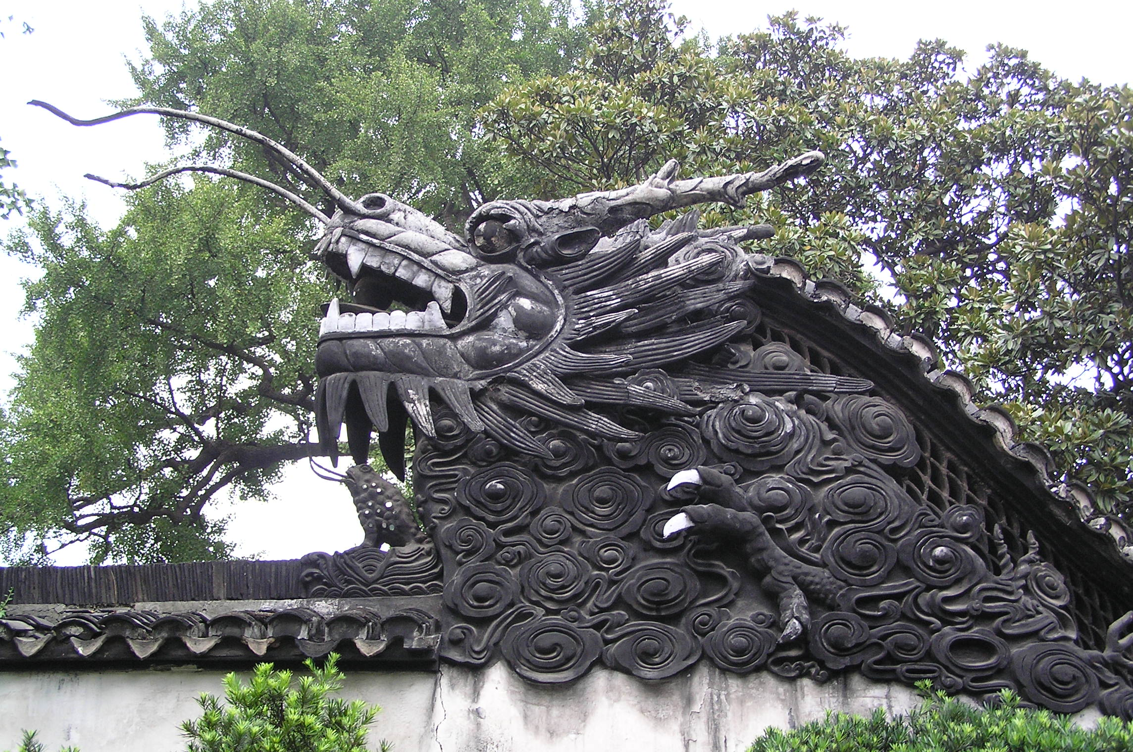 Wall roof modelled as a dragon at the Yu Yuan Gardens (Shanghai, China)穿云龙 Author: Mr. Tickle Date: July, 2005